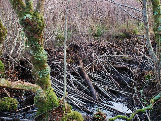 Beaver dam - four months on. Compare this structure with 1452003.